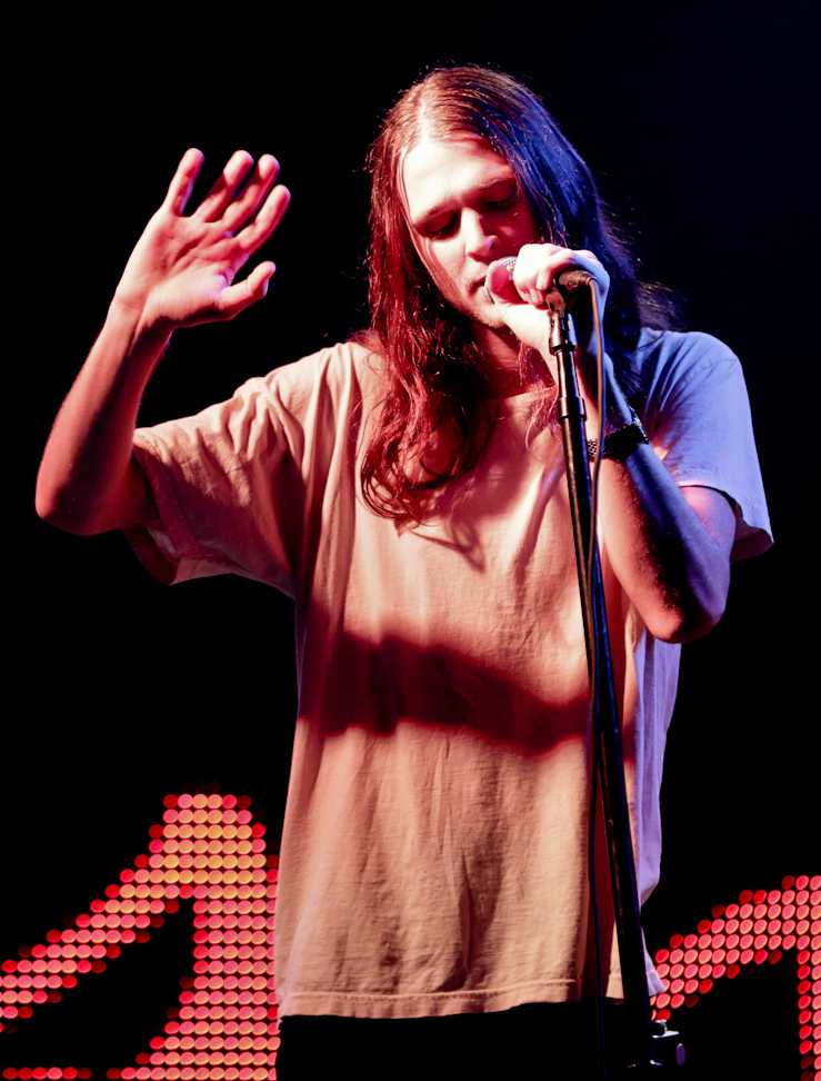 JMSN @ The Intersection 10.28.12